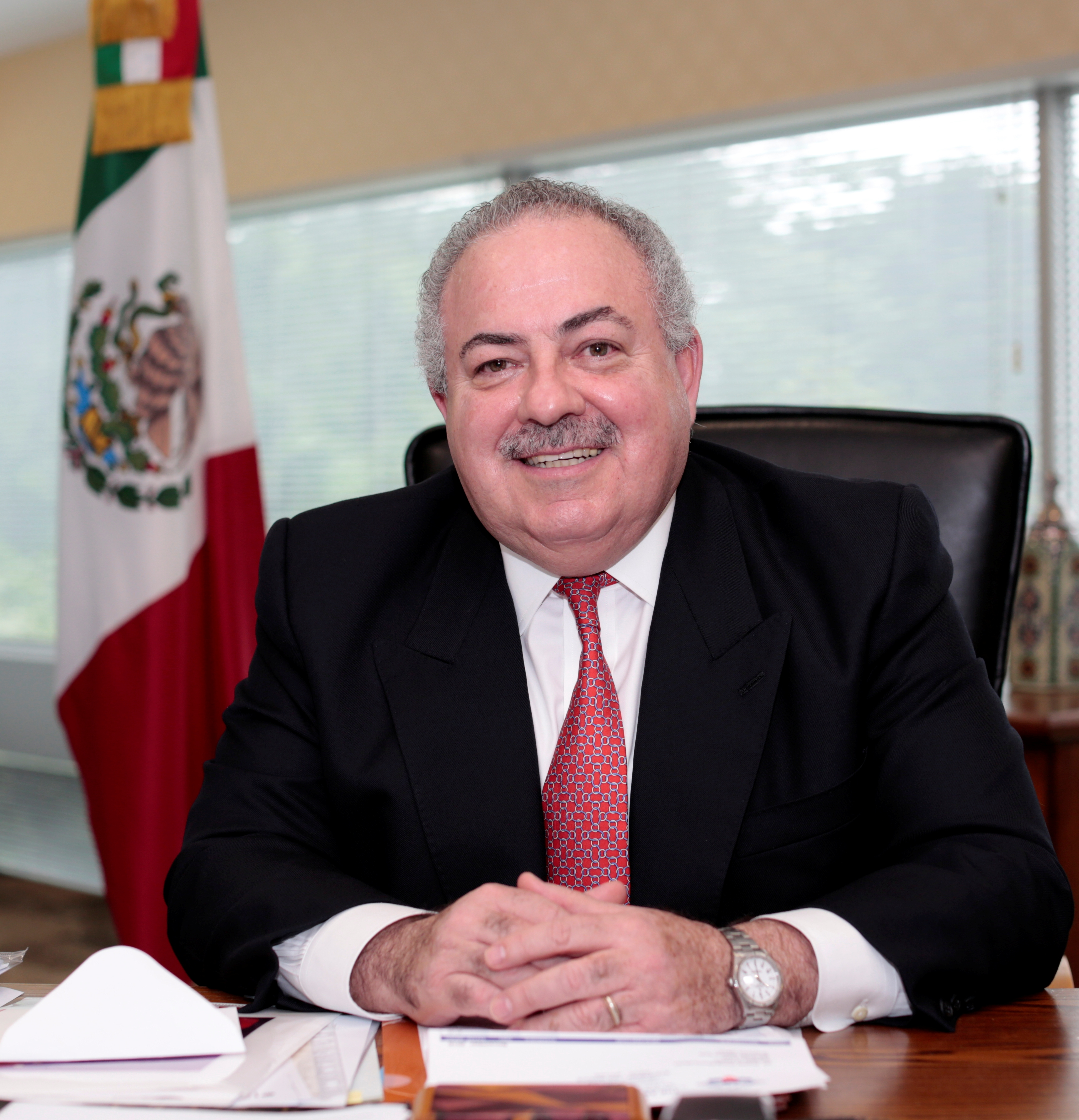 Ambassador